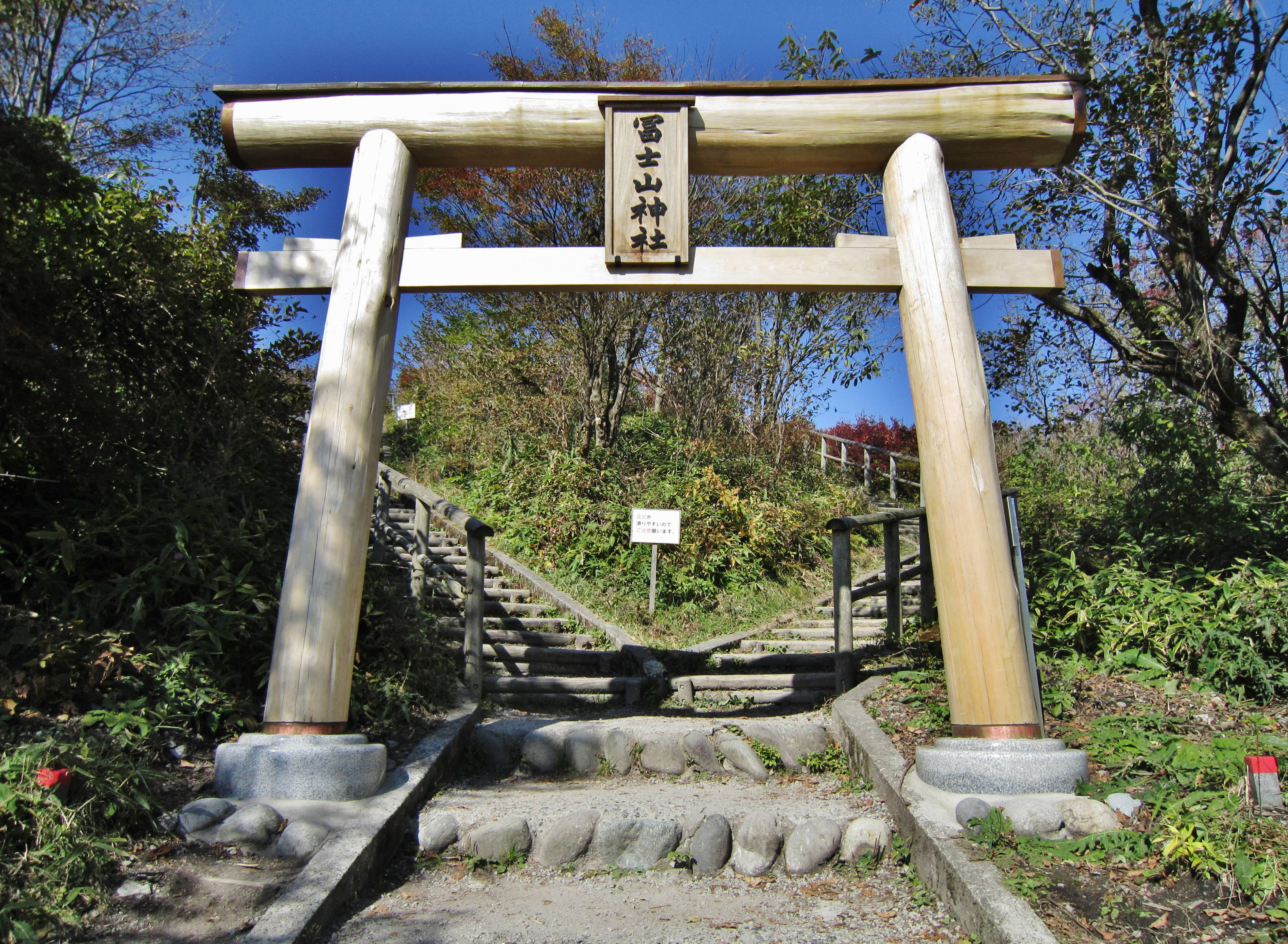 Mount Haruna Fujisan-jinja torii.